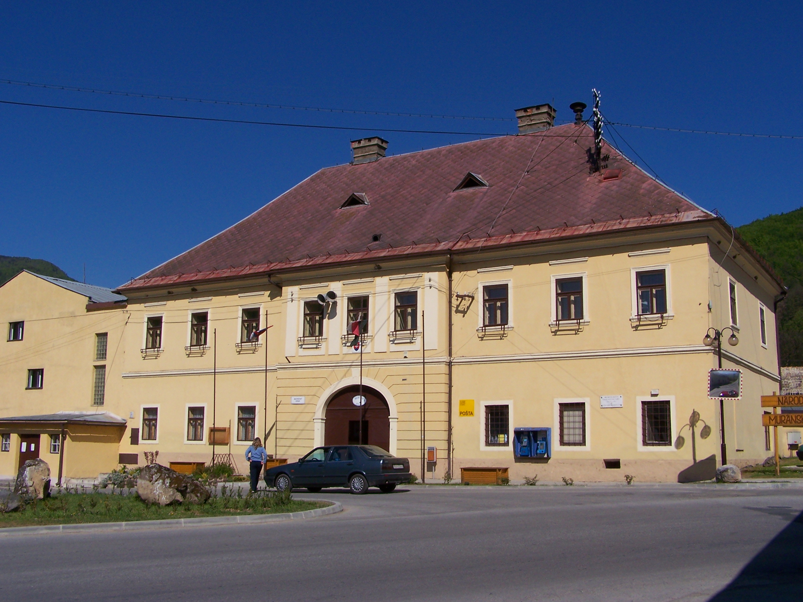 Town hall in Muráň.